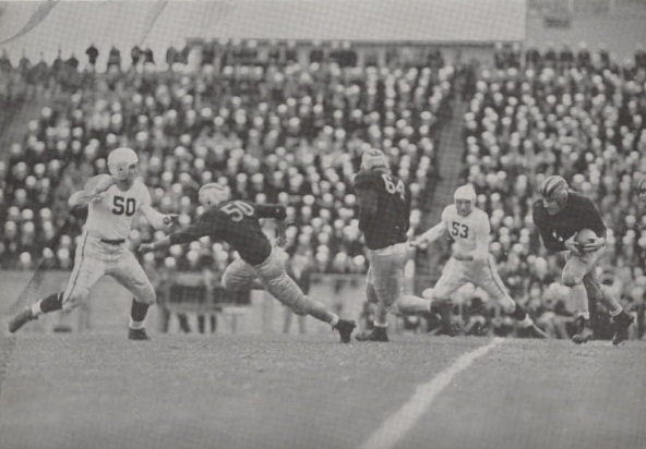 Photograph of Purdue football player Tony Butkovich carrying ball behind blocking from Buscemi (50) and Kasap (64)